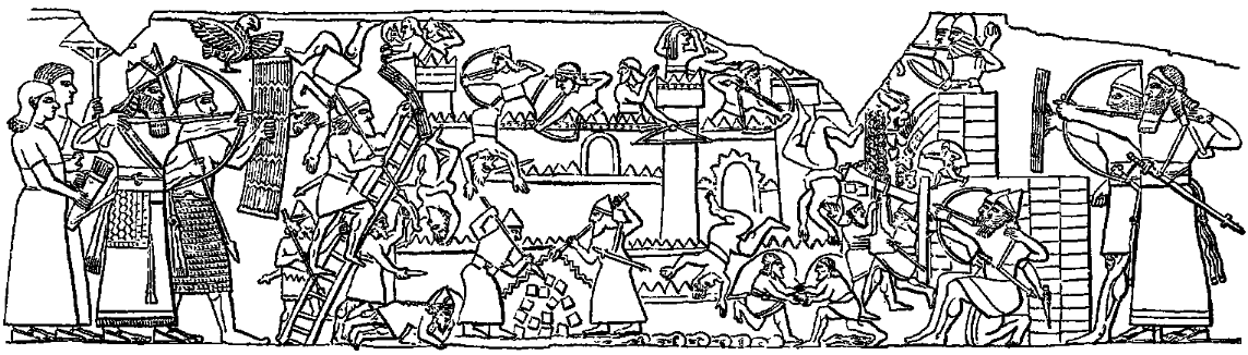 An illustration from the Encyclopaedia Biblica, a 1903 publication which is now in the public domain. Fig. 1 for article "Siege". Image of a siege on a city by Ashur-natsi-pal